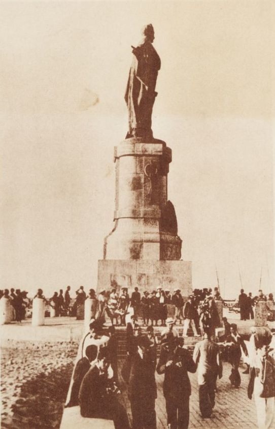 Statue of a man on a pedestal, crowds underneath on platform